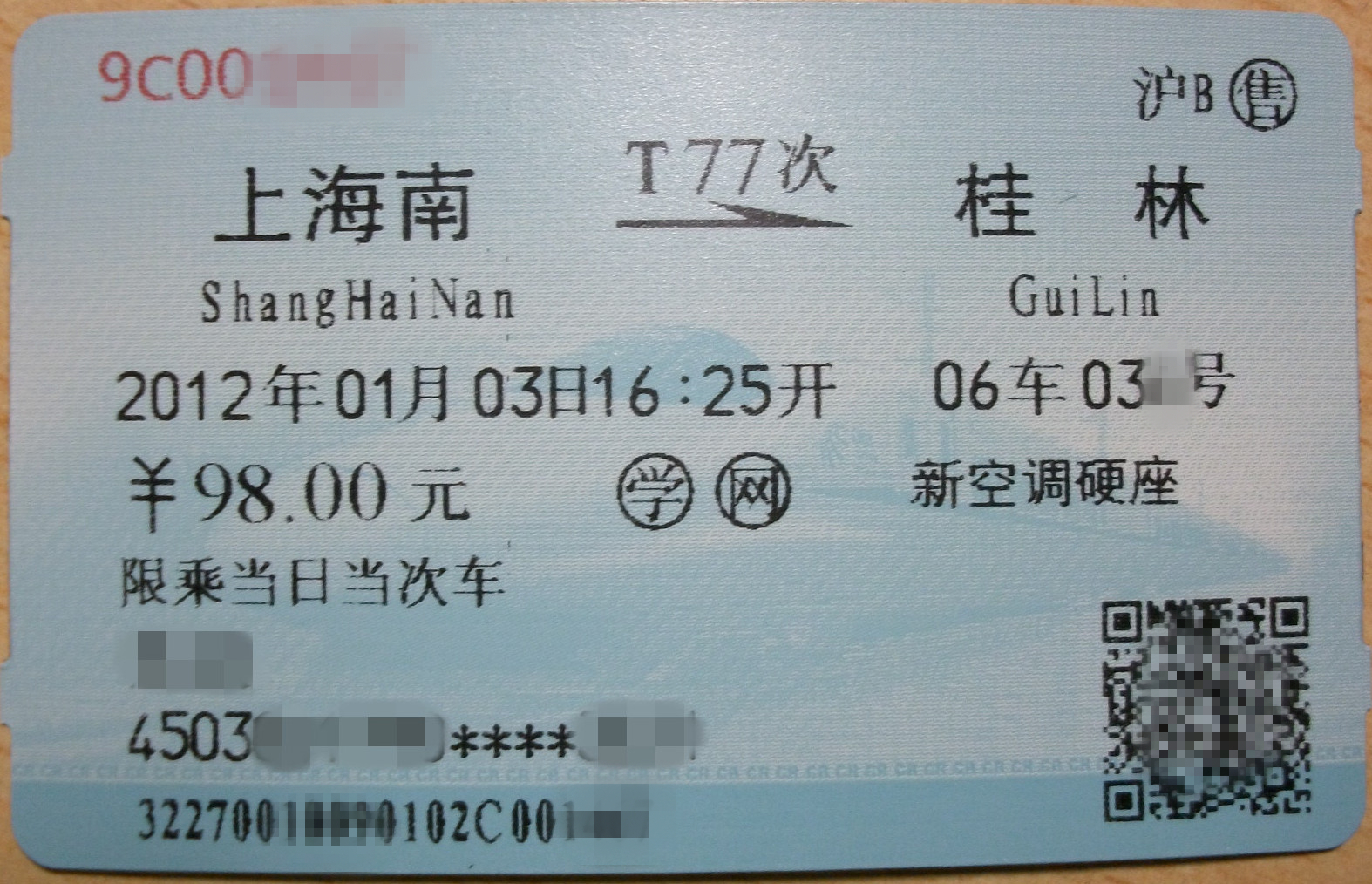 A student ticket sold on the Internet.